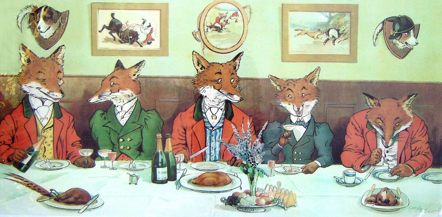 Lithograph, "Mr Fox's Hunt Breakfast on Xmas Day"